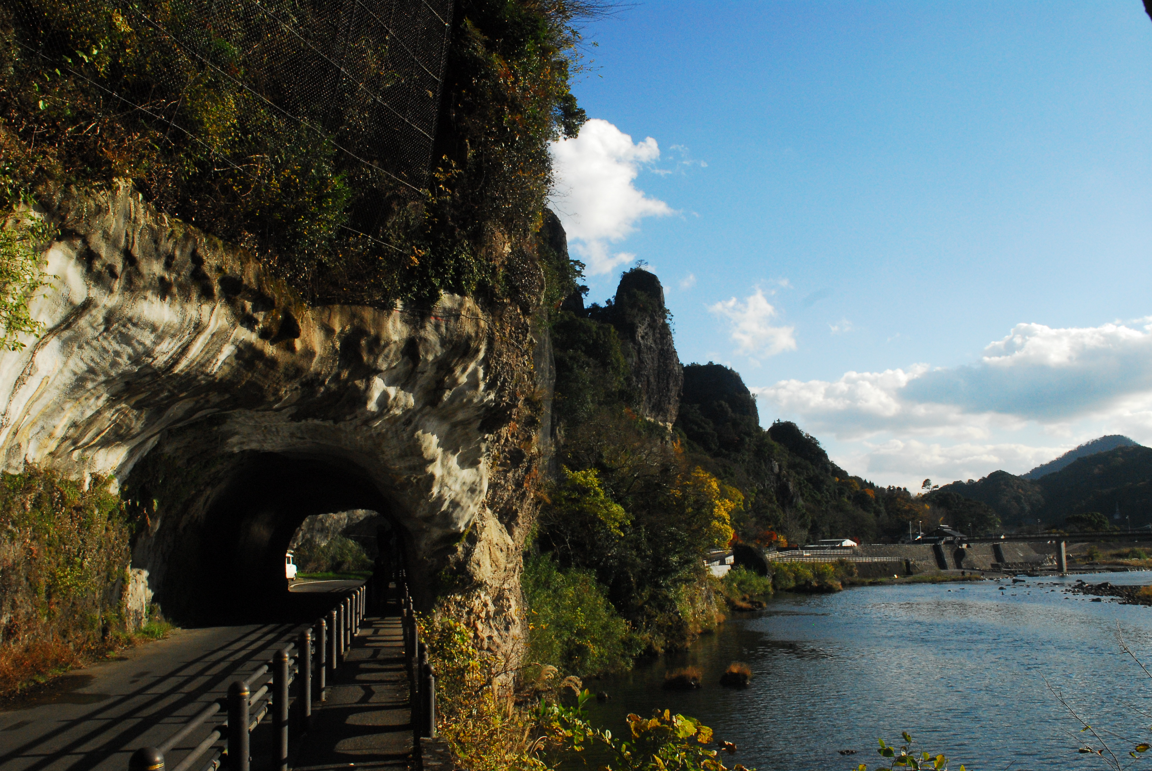 Aonodōmon